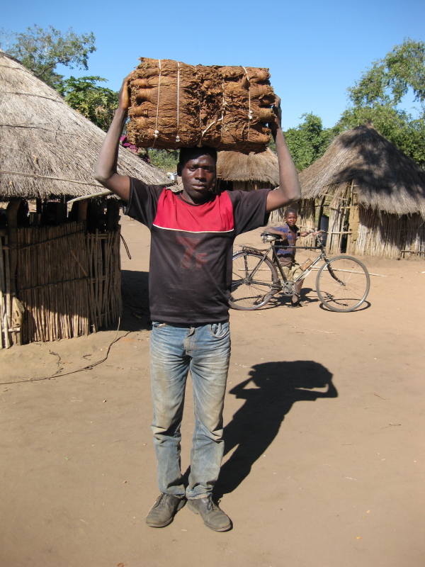 Village scene in Museu Wamutoto in Macossa district of Mozambique. Transport of traditionally processed tobacco.